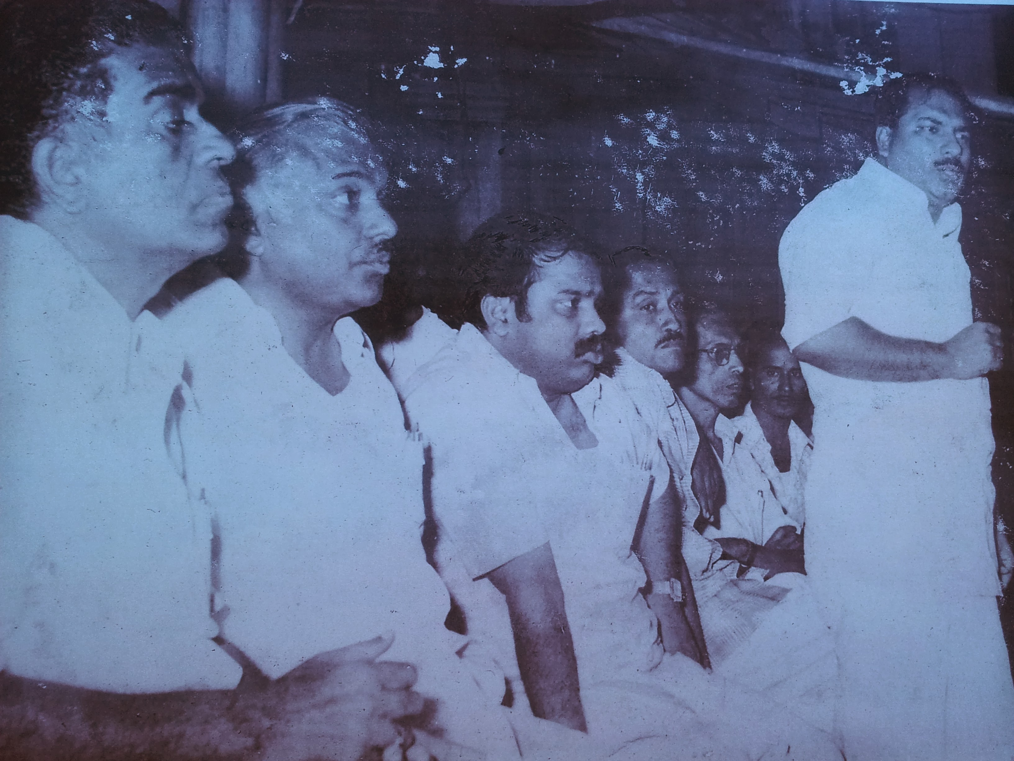 With AK Antony, then KPCC President